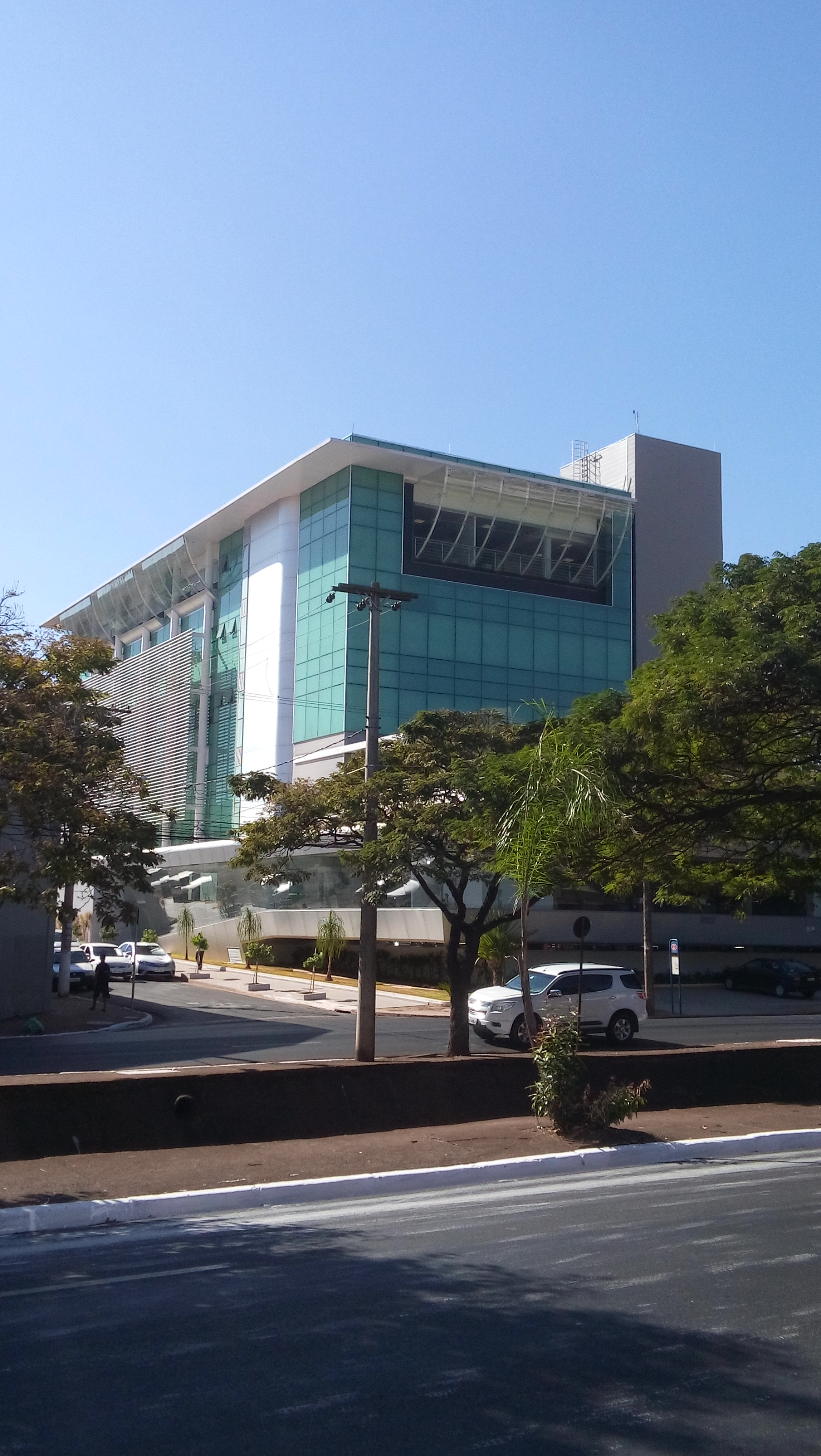 Headquarters Sicoob Credicoonai in Singapore